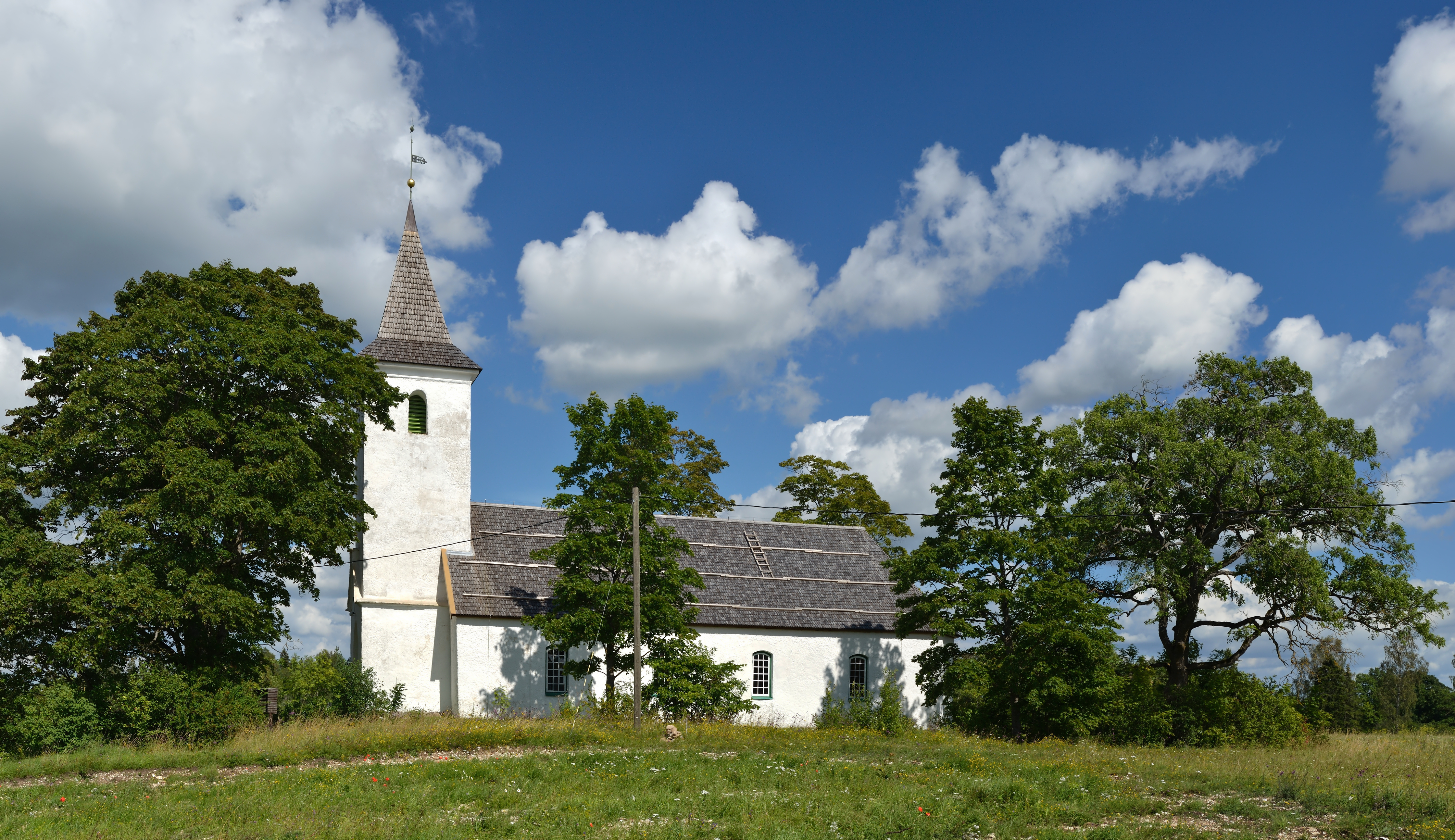 Tuhala church from south